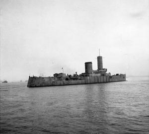 The former German target ship Hessen at Kiel after being ceded to the Soviet Union under the terms of the Potsdam Conference. Hessen was a pre-dreadnought battleship of the Braunschweig Class, launched in 1903. She was converted to a radio-controlled target ship during the inter-war years. After being taken into Russian service she was named Tsel'.